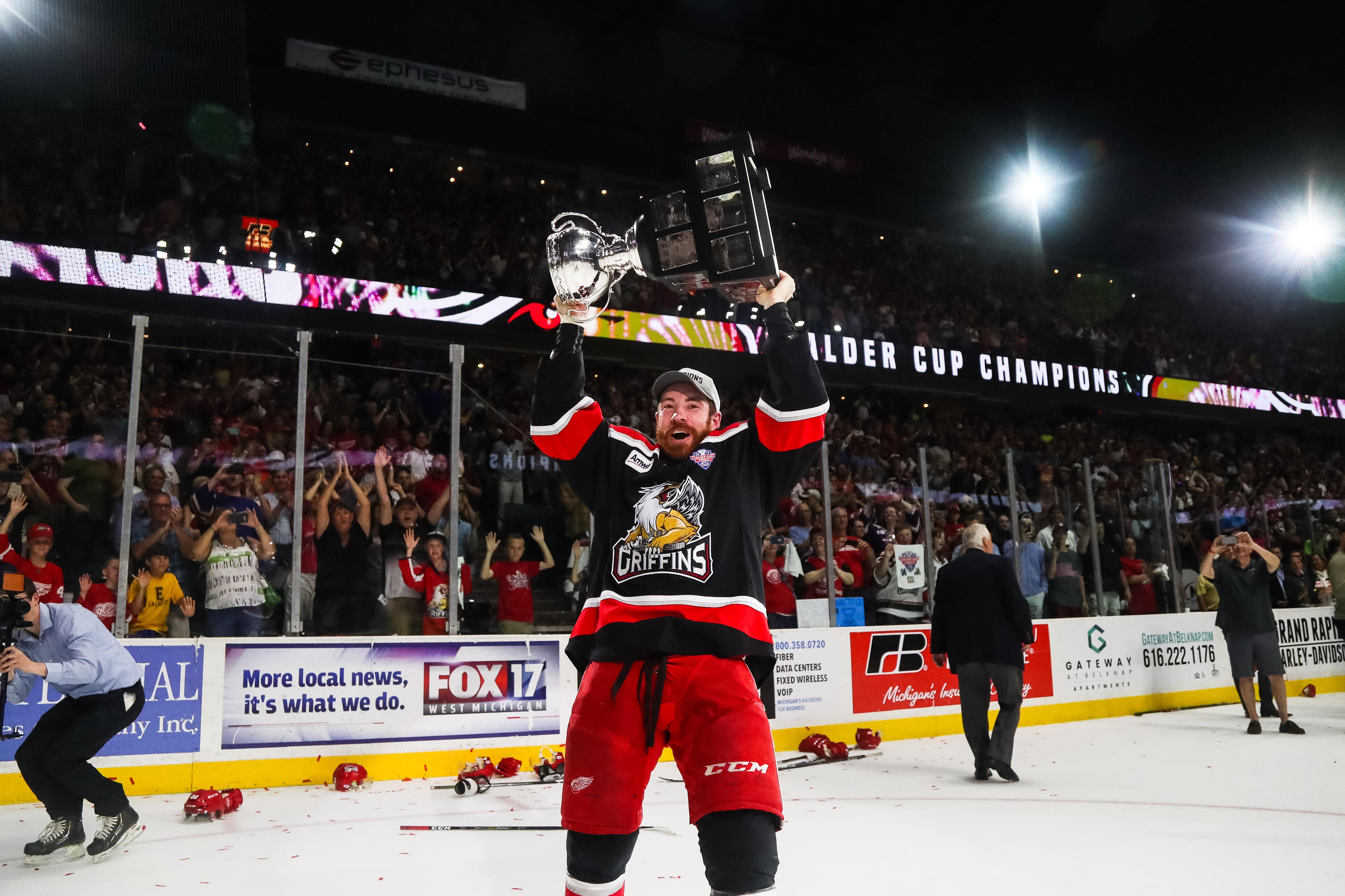 Photo: Sam Iannamico